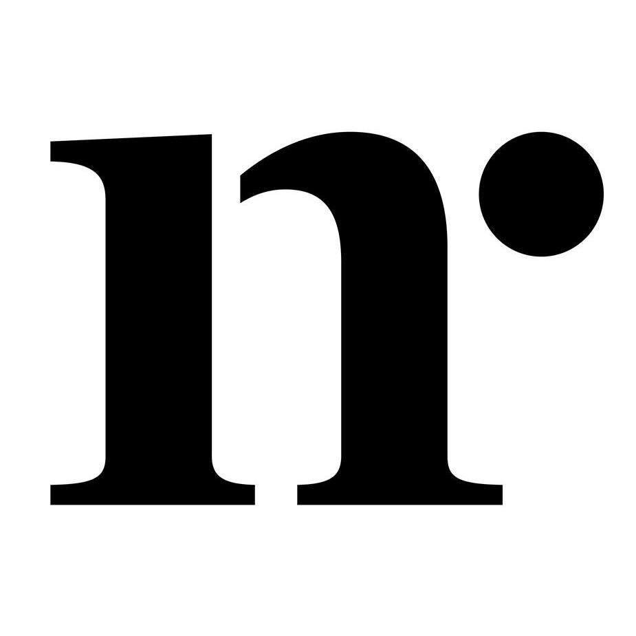 The logo of the New Zealand news and commentary website Newsroom